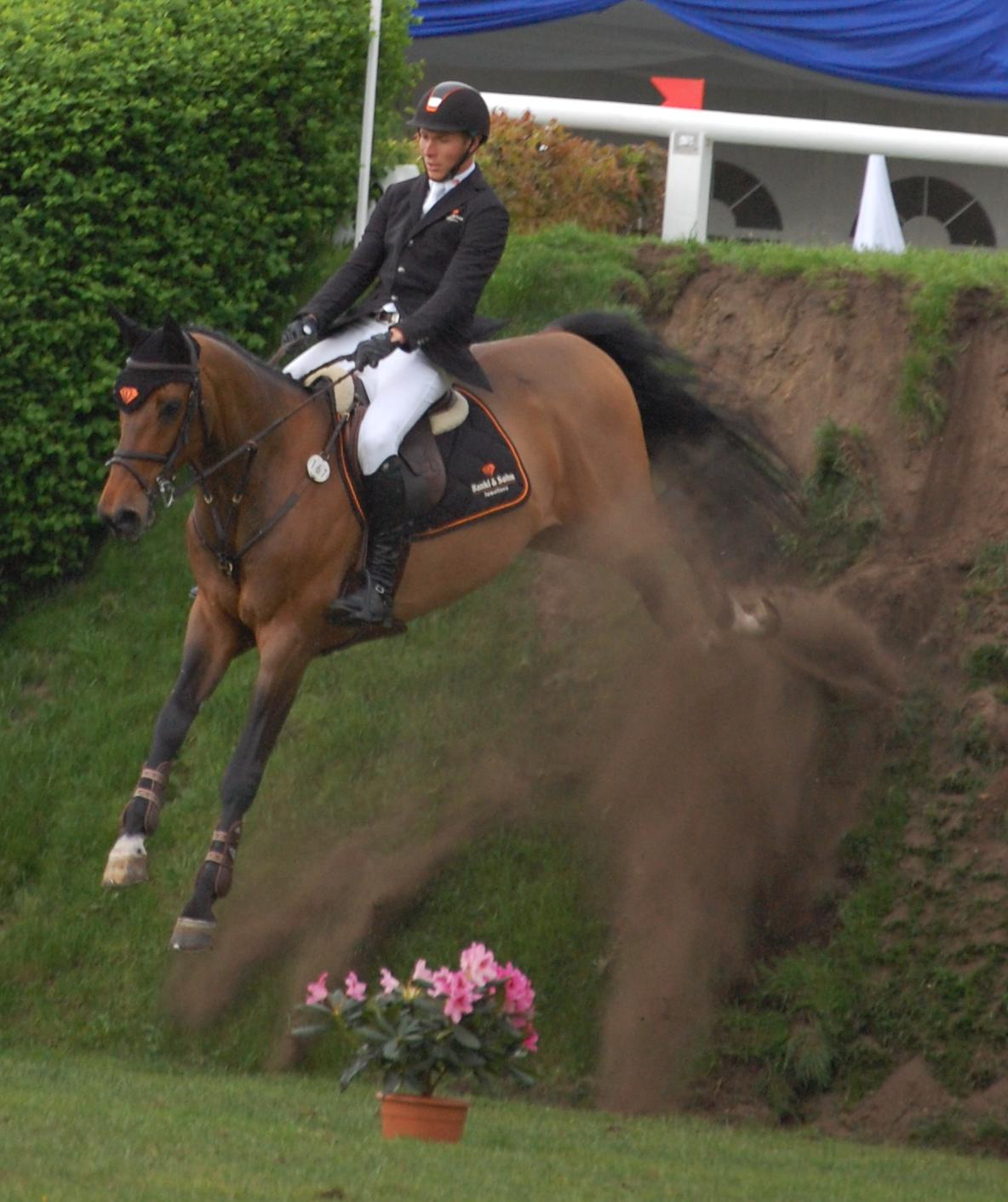 German rider David Will with Carefino, 2nd qualifier to the German show jumping derby in Hamburg 2013 (CSI 3*)